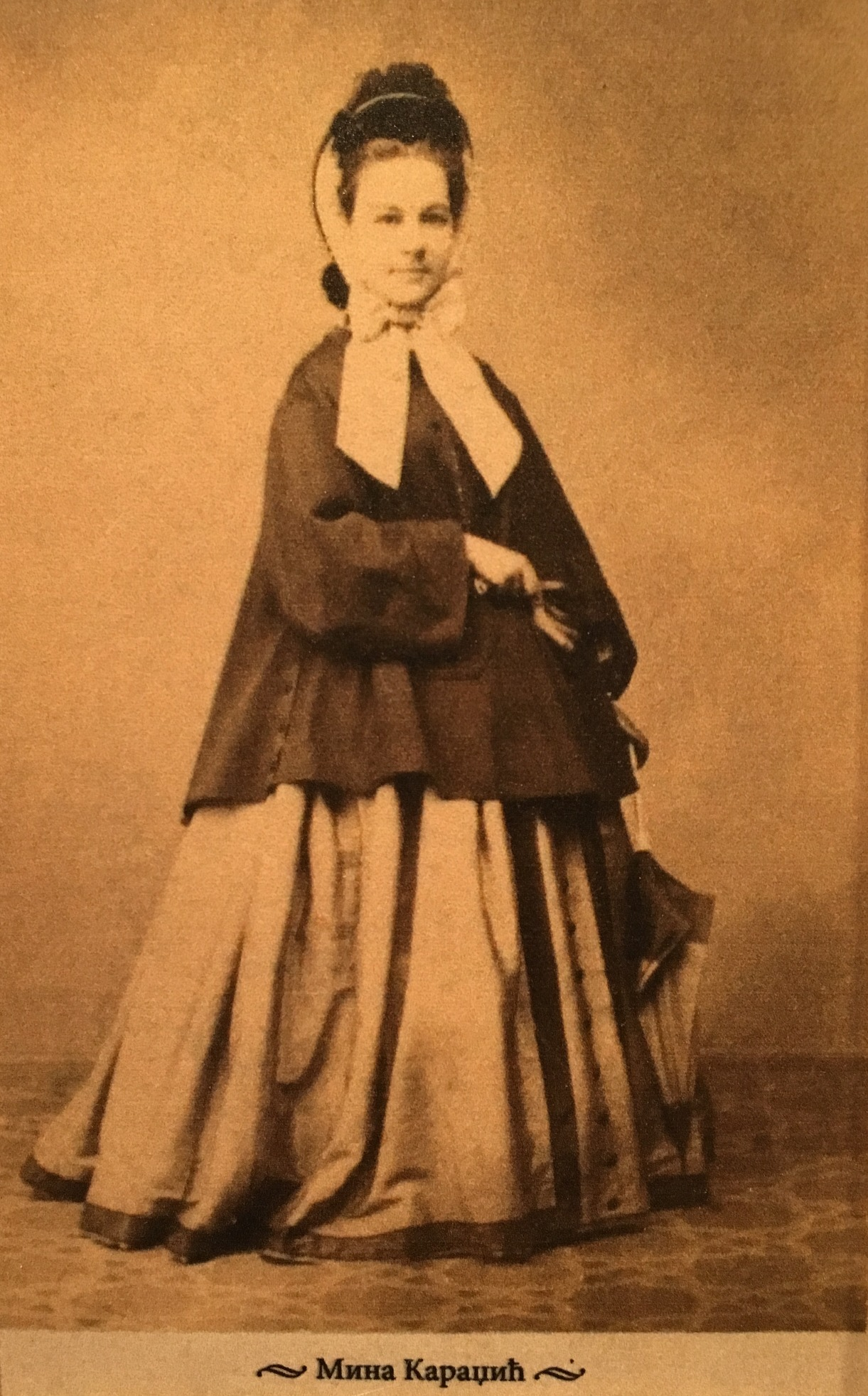 A photo of painter Mina Karadžić